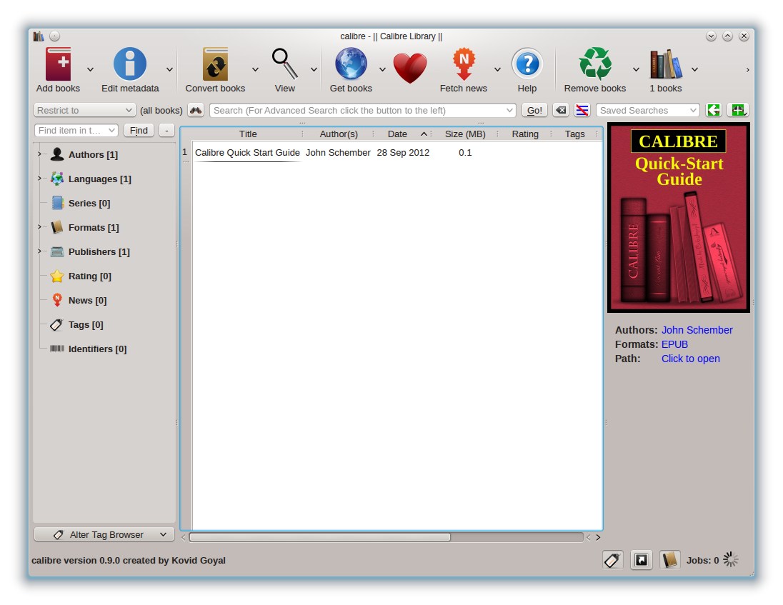 Screenshot of the calibre 0.9.0 main interface running under Fedora Linux 17